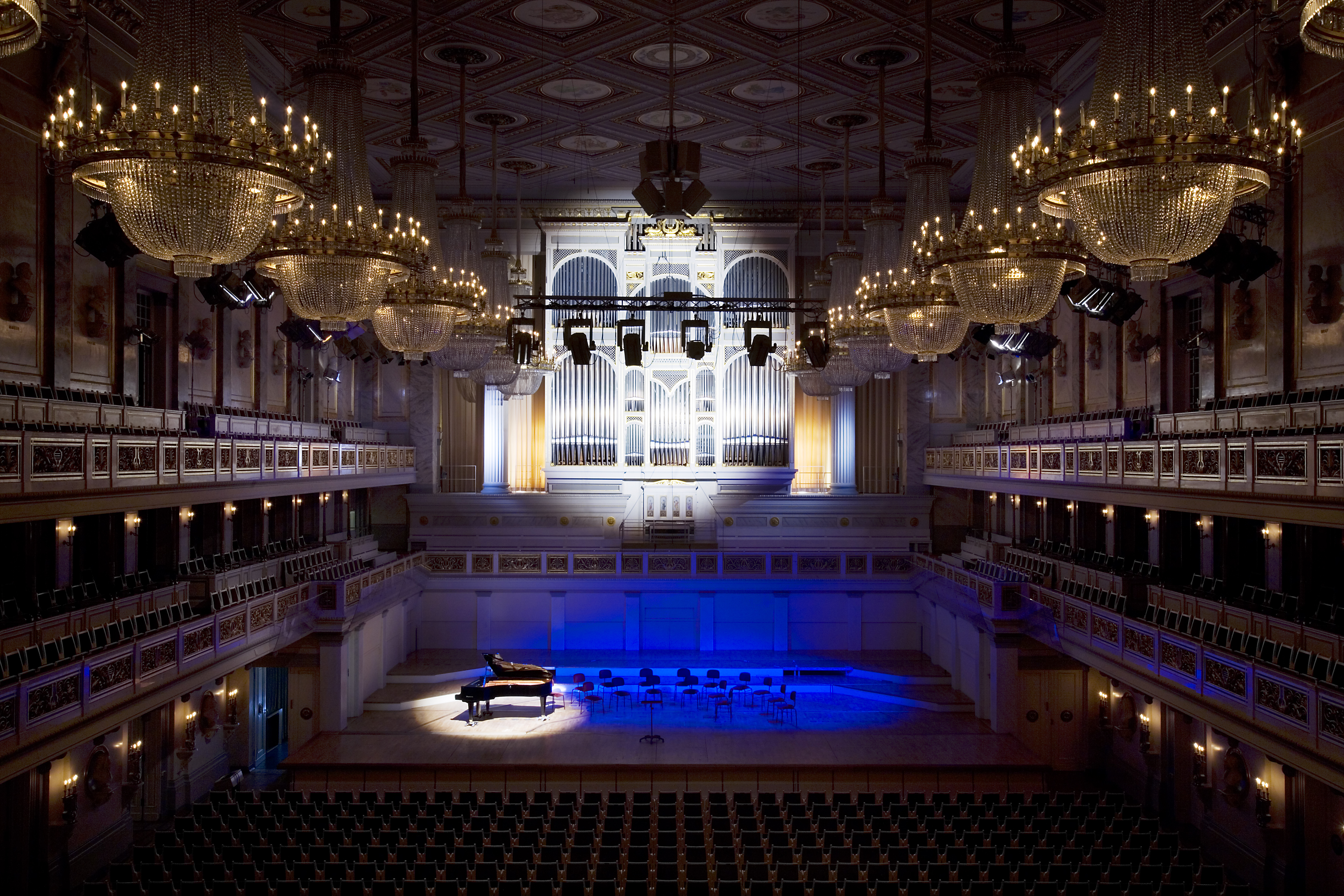 Grand piano at the main hall in the Konzerthaus Berlin, Germany